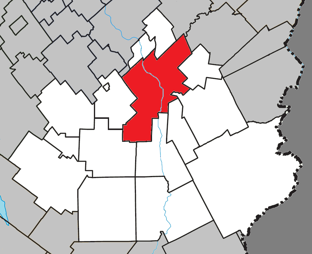 Location of Saint-Georges, Quebec within Beauce-Sartigan Regional County Municipality.